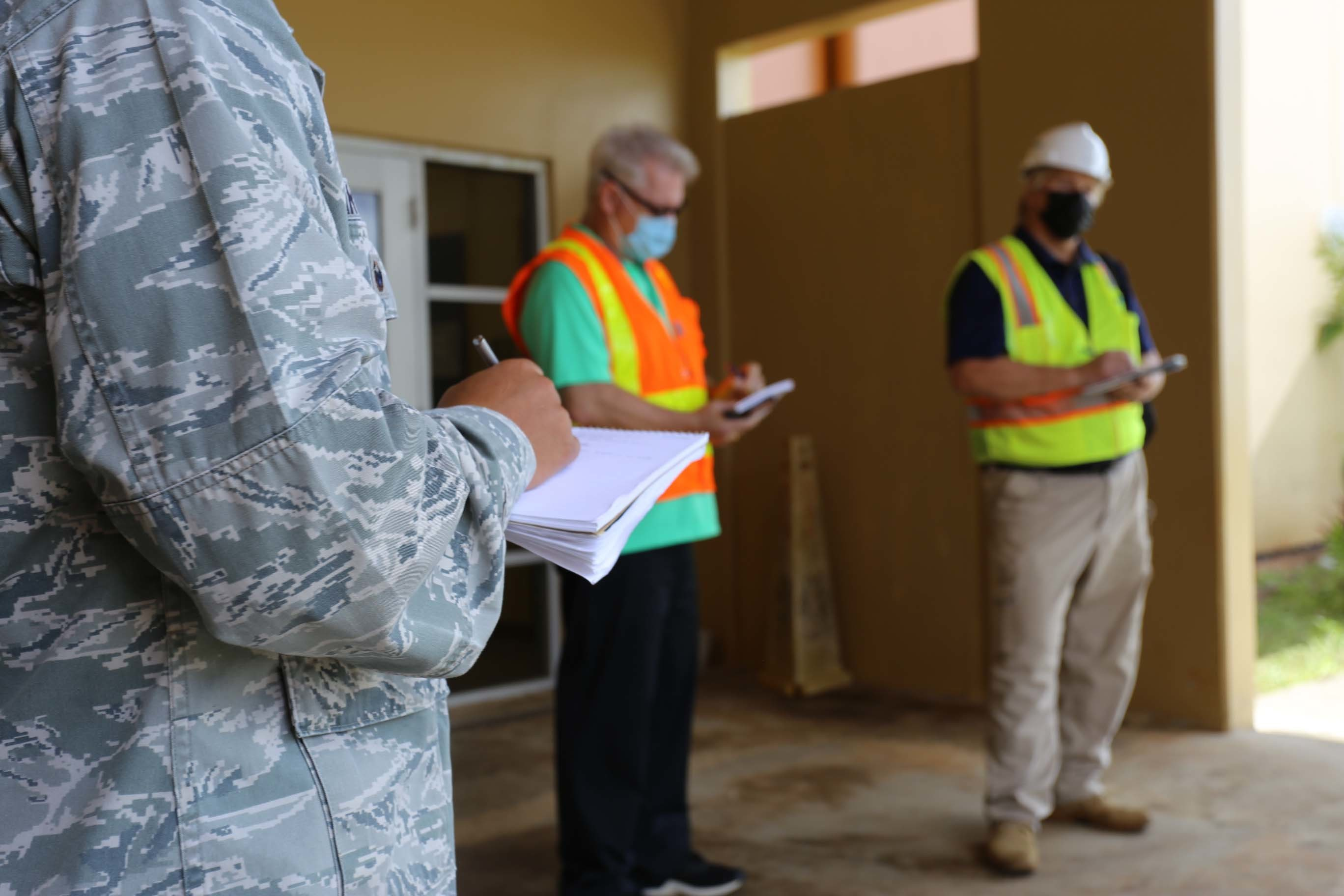 Maj. Joseph Pangelinan, 254th REDHORSE Squadron, takes notes during meeting for a potential alternate care facility at a high school in Dededo, Guam, on April 22, 2020. The Guam National Guard is continuing to work with federal and local agencies during the island’s fight against COVID-19. (U.S. Army National Guard photo by JoAnna Delfin)